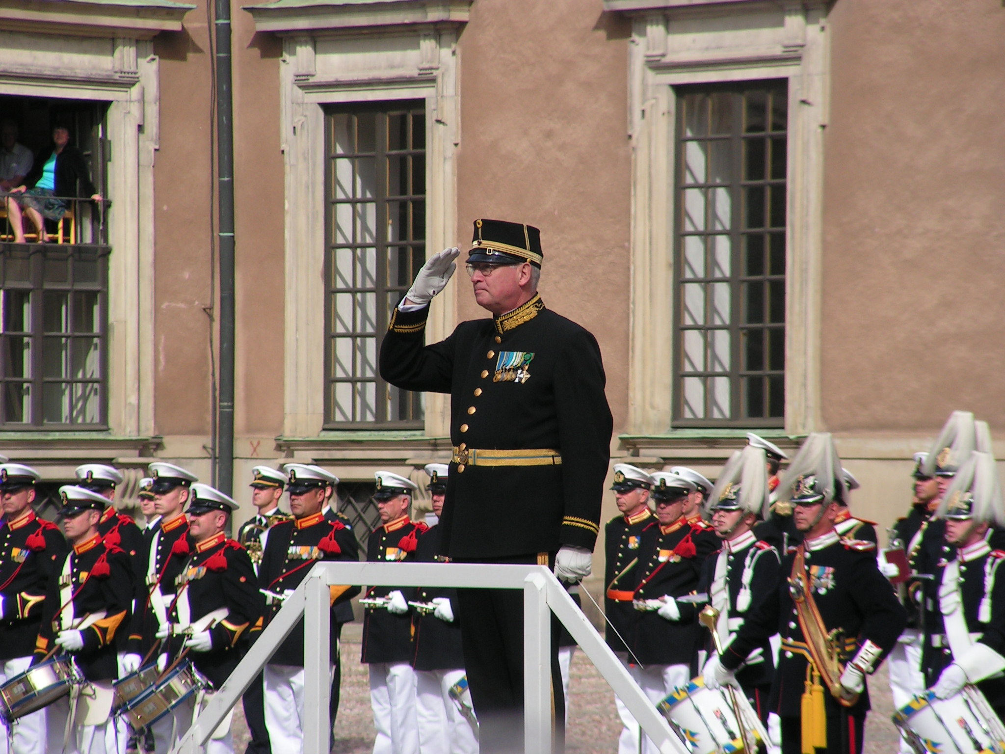 The Swedish Army Music Director Torgny Hanson. Swedish Army Tattoo in Stockholm september 2006. Open air concert at Stockholm Castle.